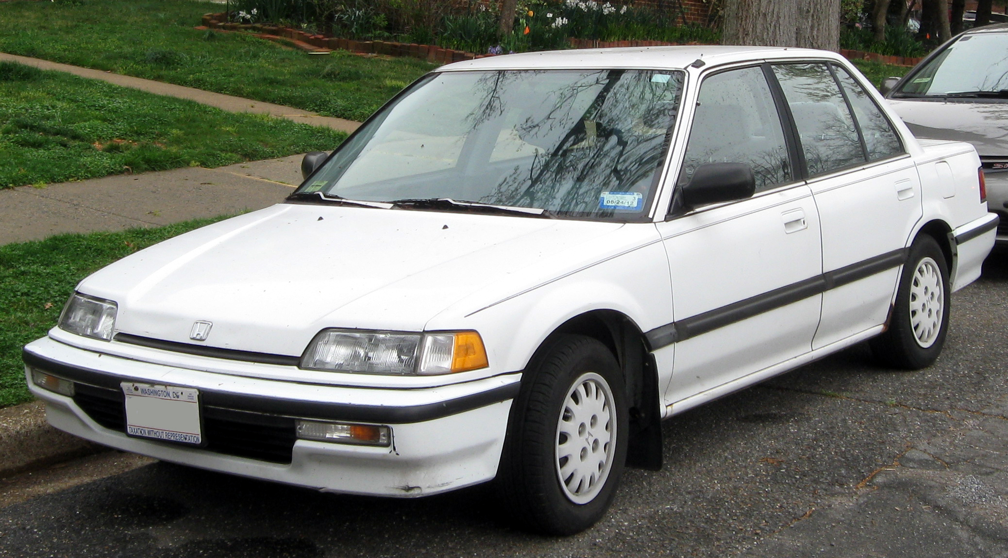 1988-1991 Honda Civic photographed in Washington, D.C., USA.